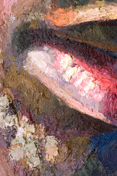 Mouth Detail of Giant head of Ben.